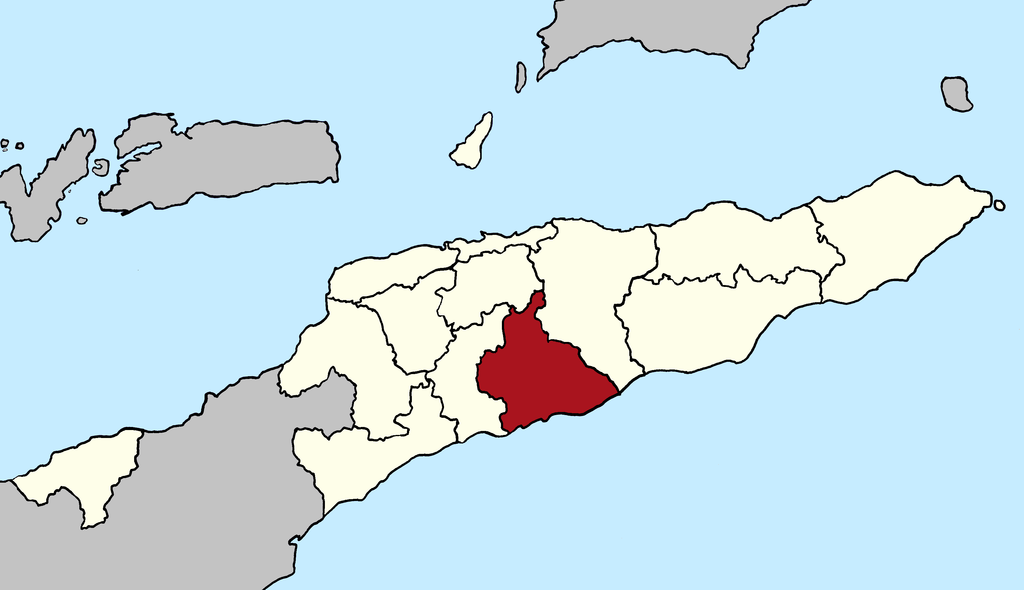 Locator map of Manufahi municipality since 2015, East Timor